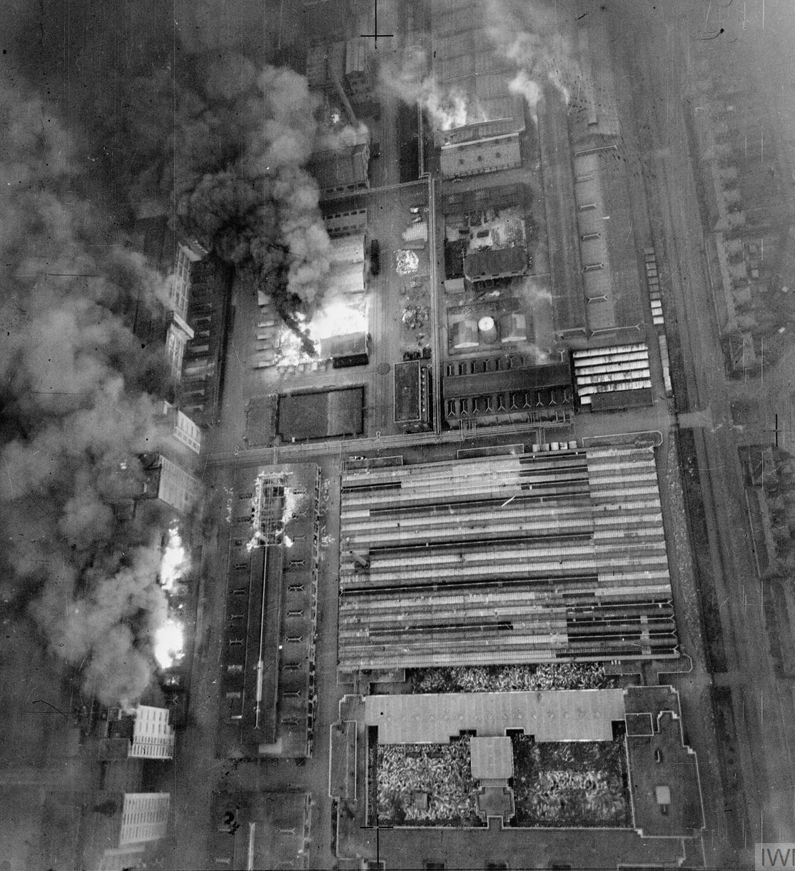 Reconnaissance photo taken of the Philips works 30 minutes after the bombing attack, 6 December 1942